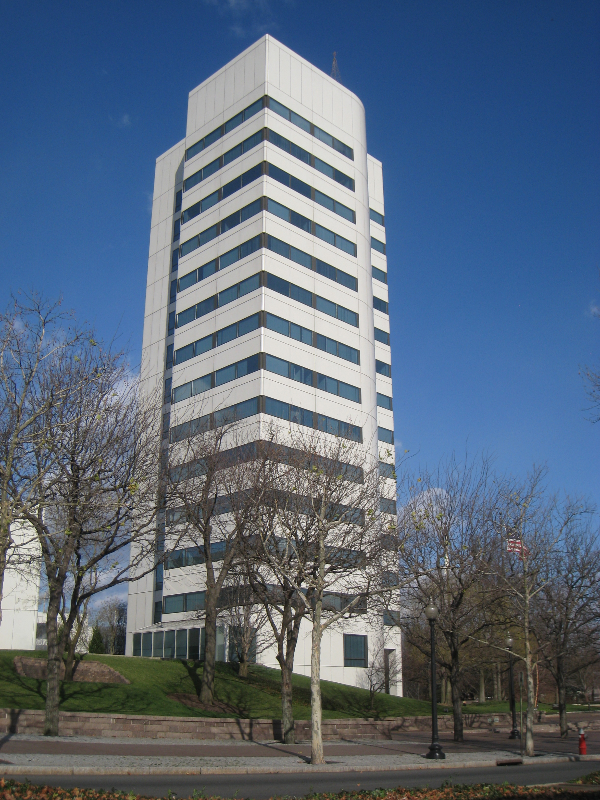 Headquarters of the Johnson & Johnson Company, One Johnson & Johnson Plaza, New Brunswick, New Jersey, USA. Architect: Henry N. Cobb of the I. M. Pei Company, built 1983.